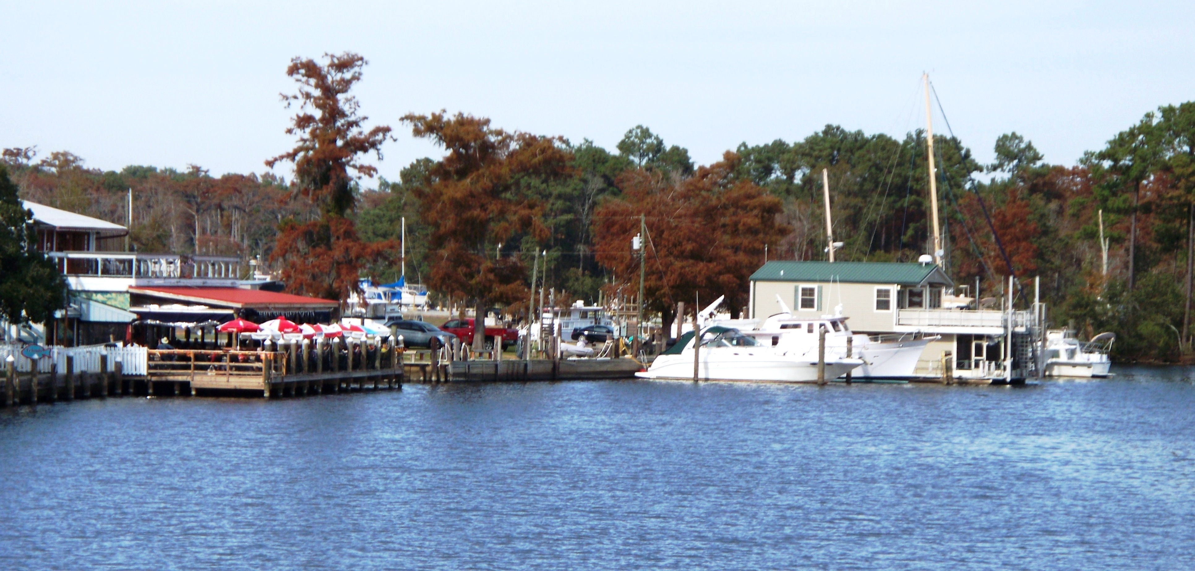 Harbor view in Madisonville, Louisiana, looking north from the LA 22 bridge